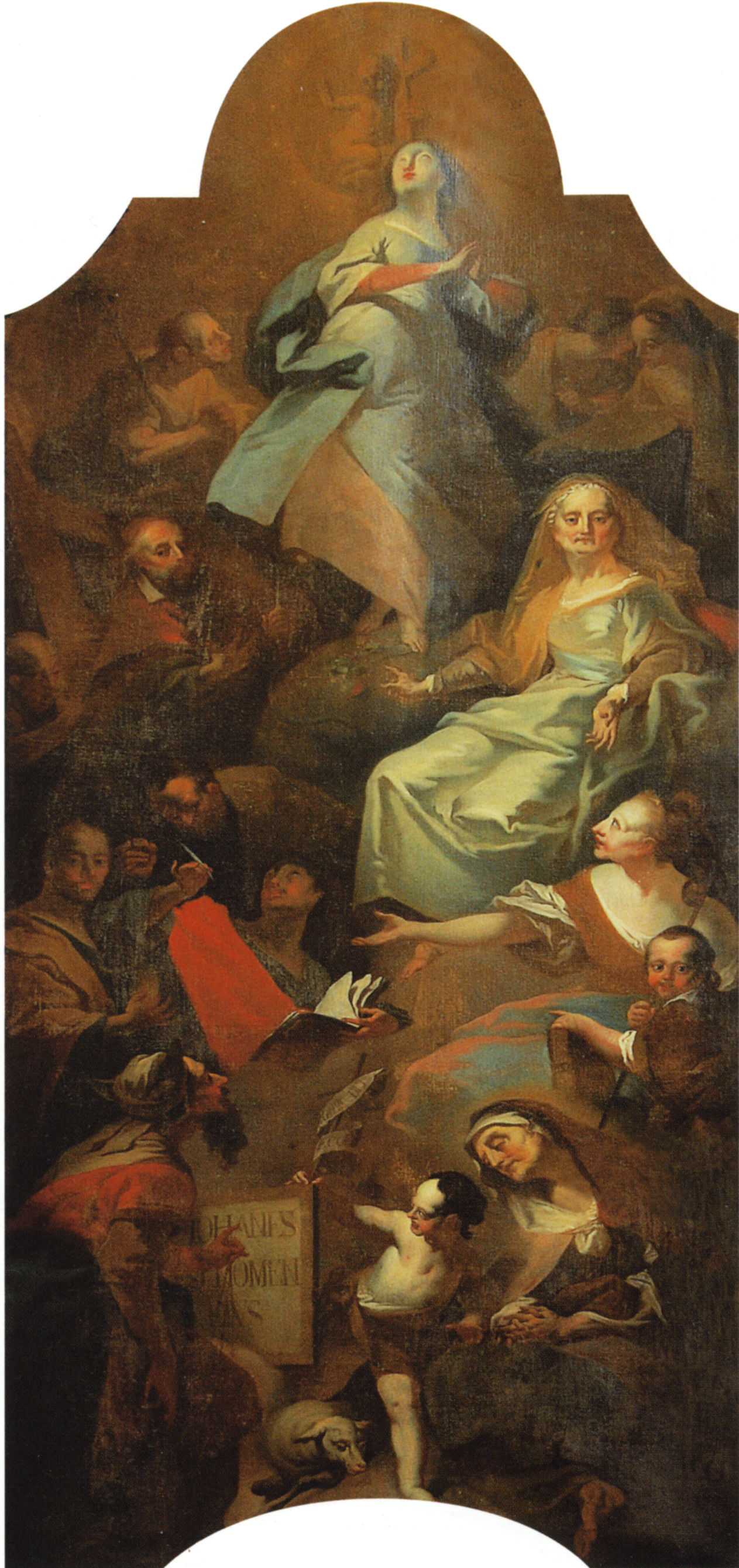 Holy Kinship